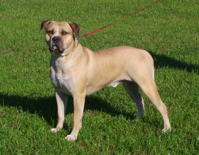 Saylor's Doc Holliday, a fawn colored American Bulldog.